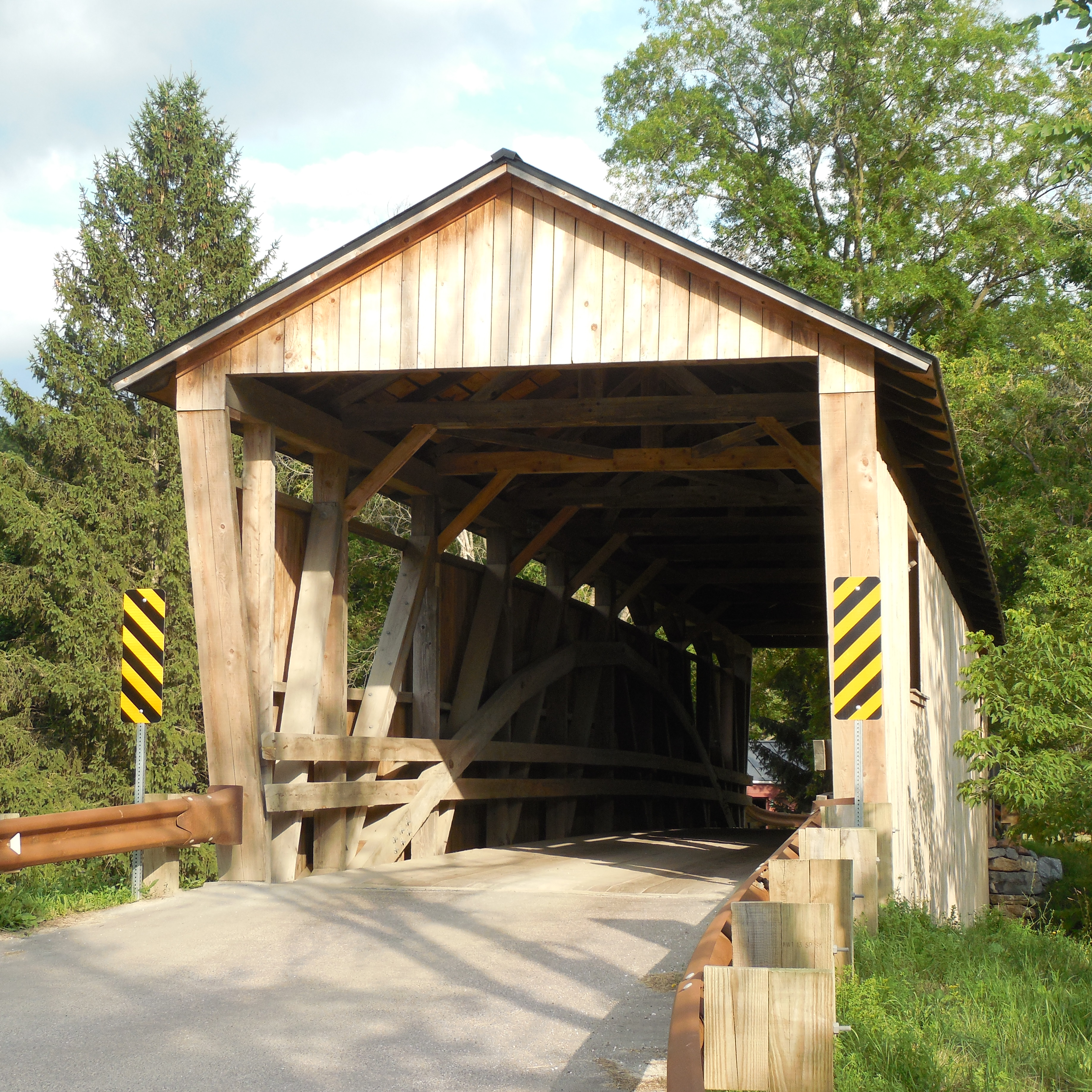 Quinlan's Covered Bridge in Charlotte, Vermont, July 2016 (Rehabilitation in 2013). The bridge was added to the National Register of Historic Places on 10 September 1974.